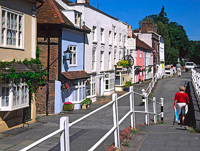 Old Town Hemel Hempstead Author Robert Stainforth